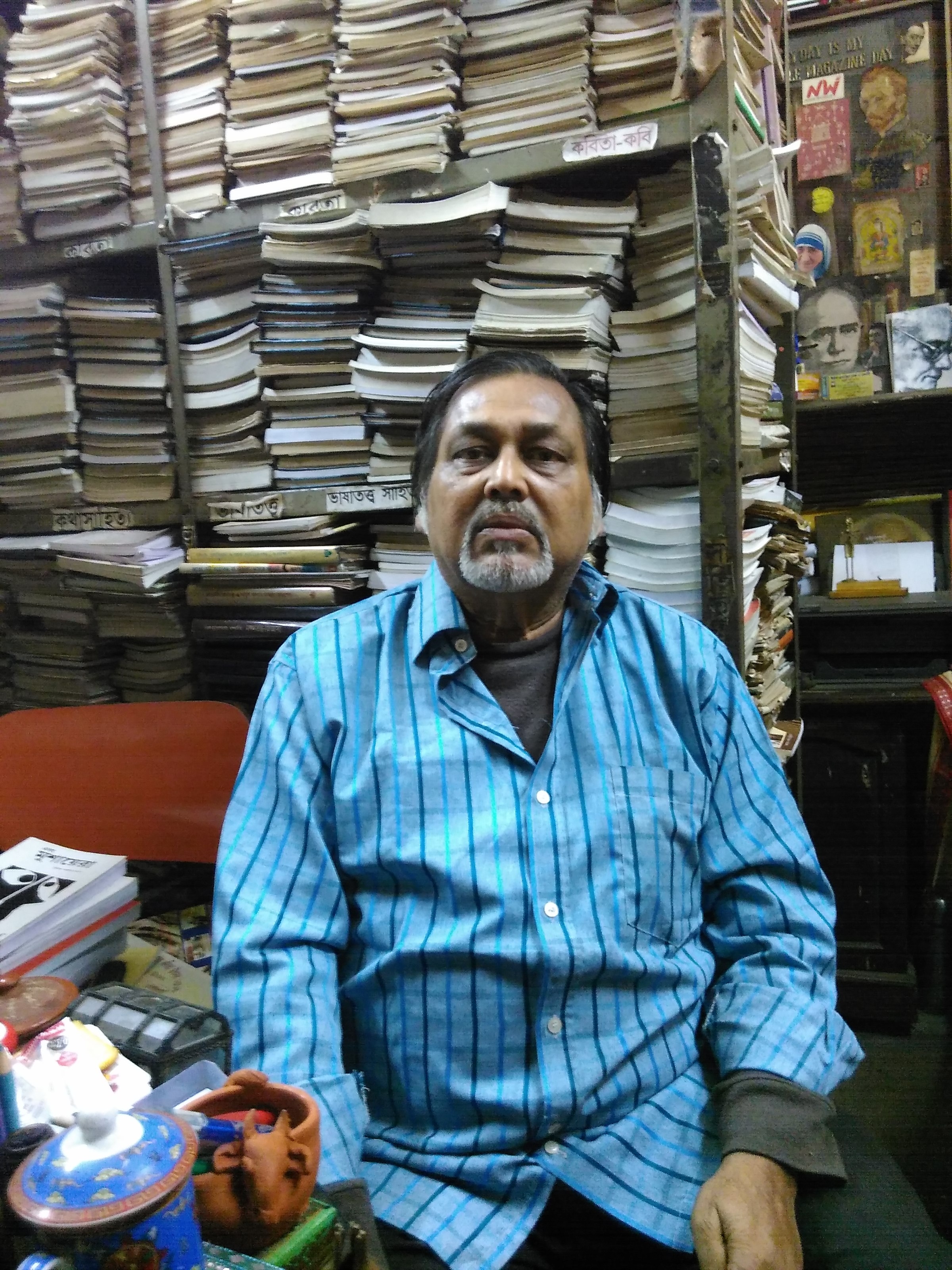 Sandip Dutta in his residence and Little Magazine Library at Tamer lane:Kolkata as on 19th Dec-2015